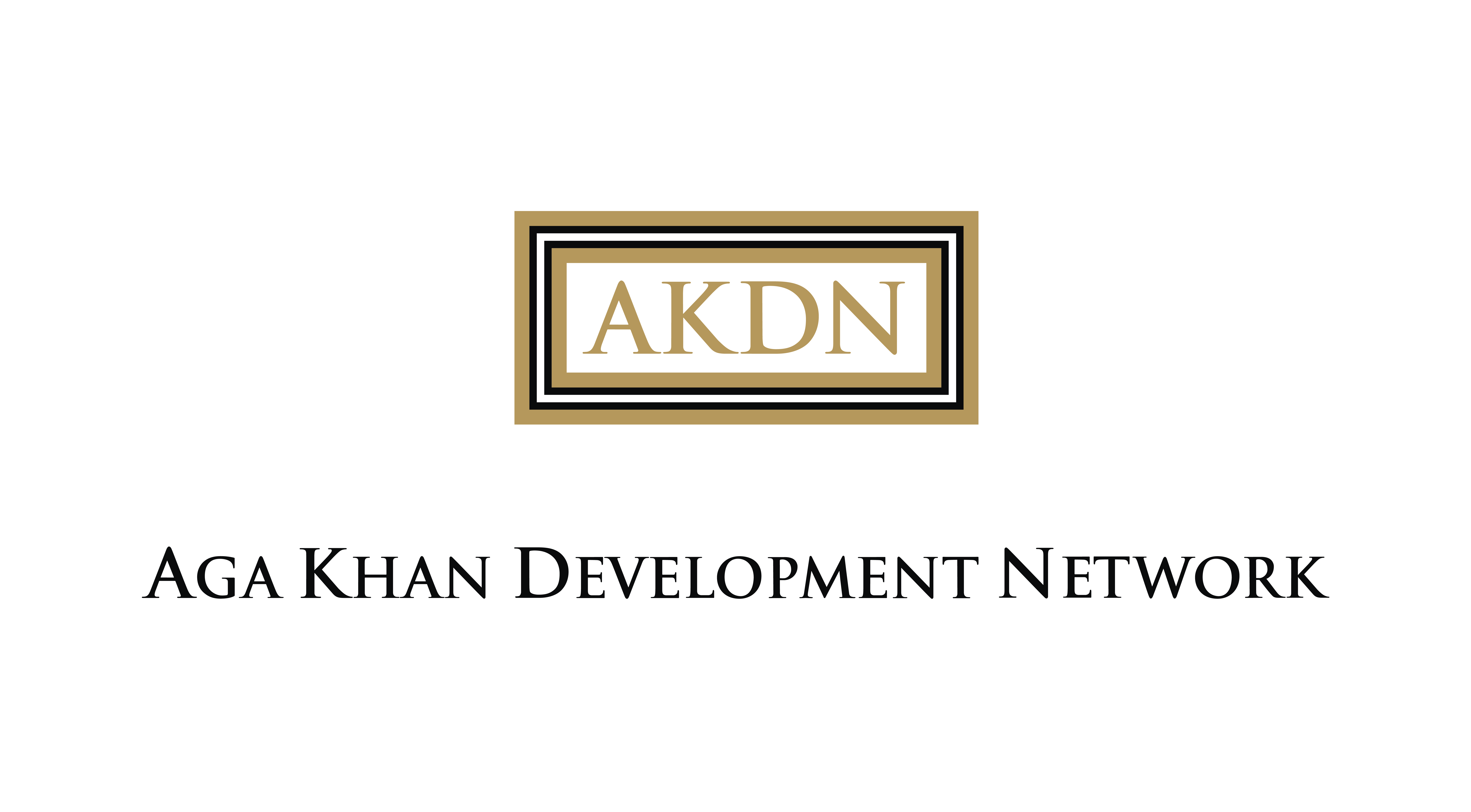 Official logo of the Aga Khan Development Network